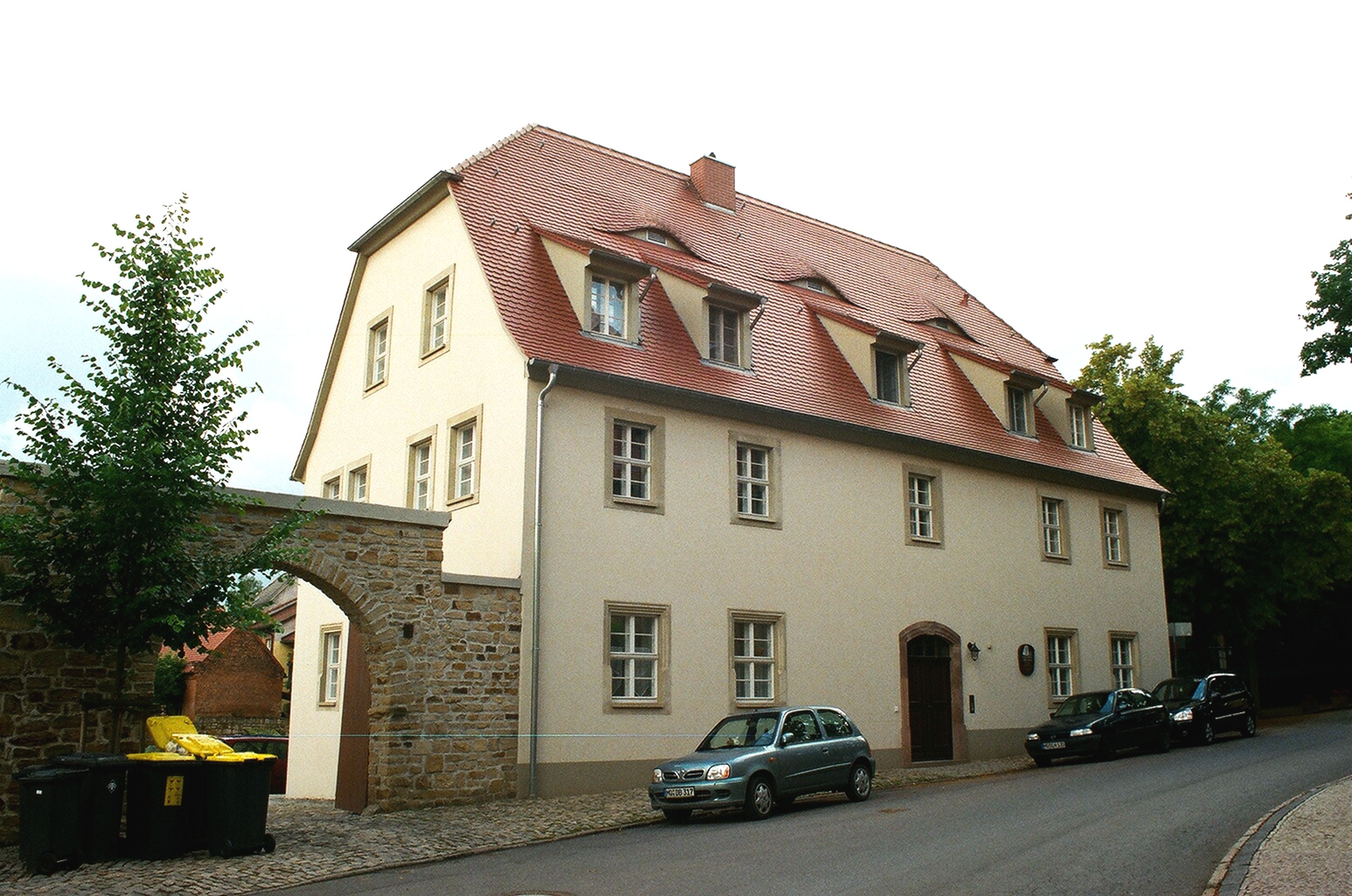 Bad Lauchstädt, the former district offices